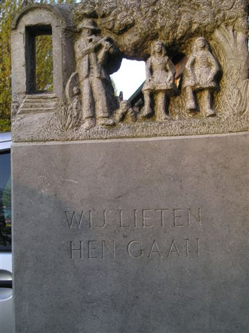 Monument for World War II victims